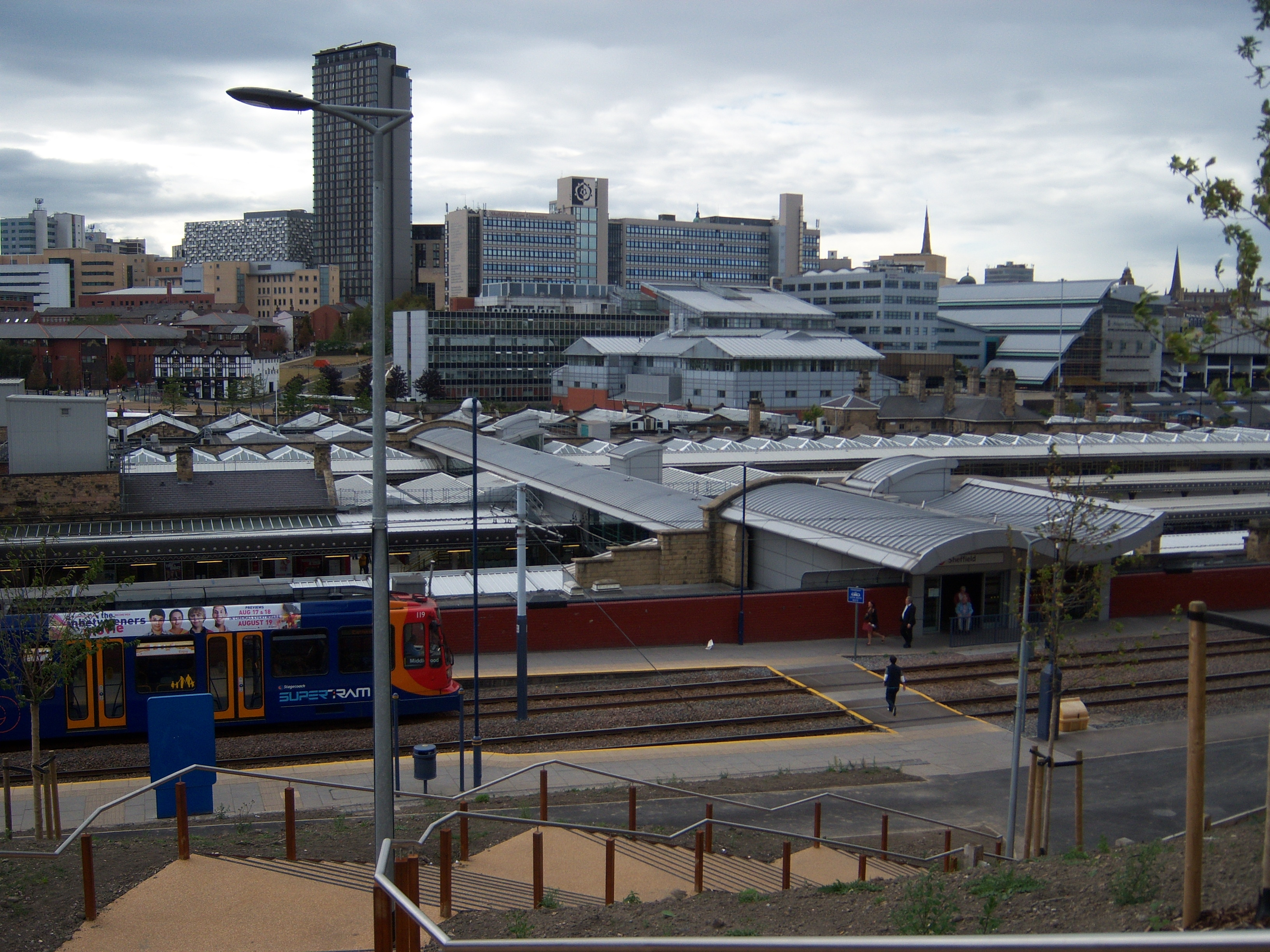 In the foreground can be seen Sheffield Railway Station and it's adjoining Supertram stop. In the distance is Sheffield City Centre, with St Paul's Tower being prominent in the centre left of the image.